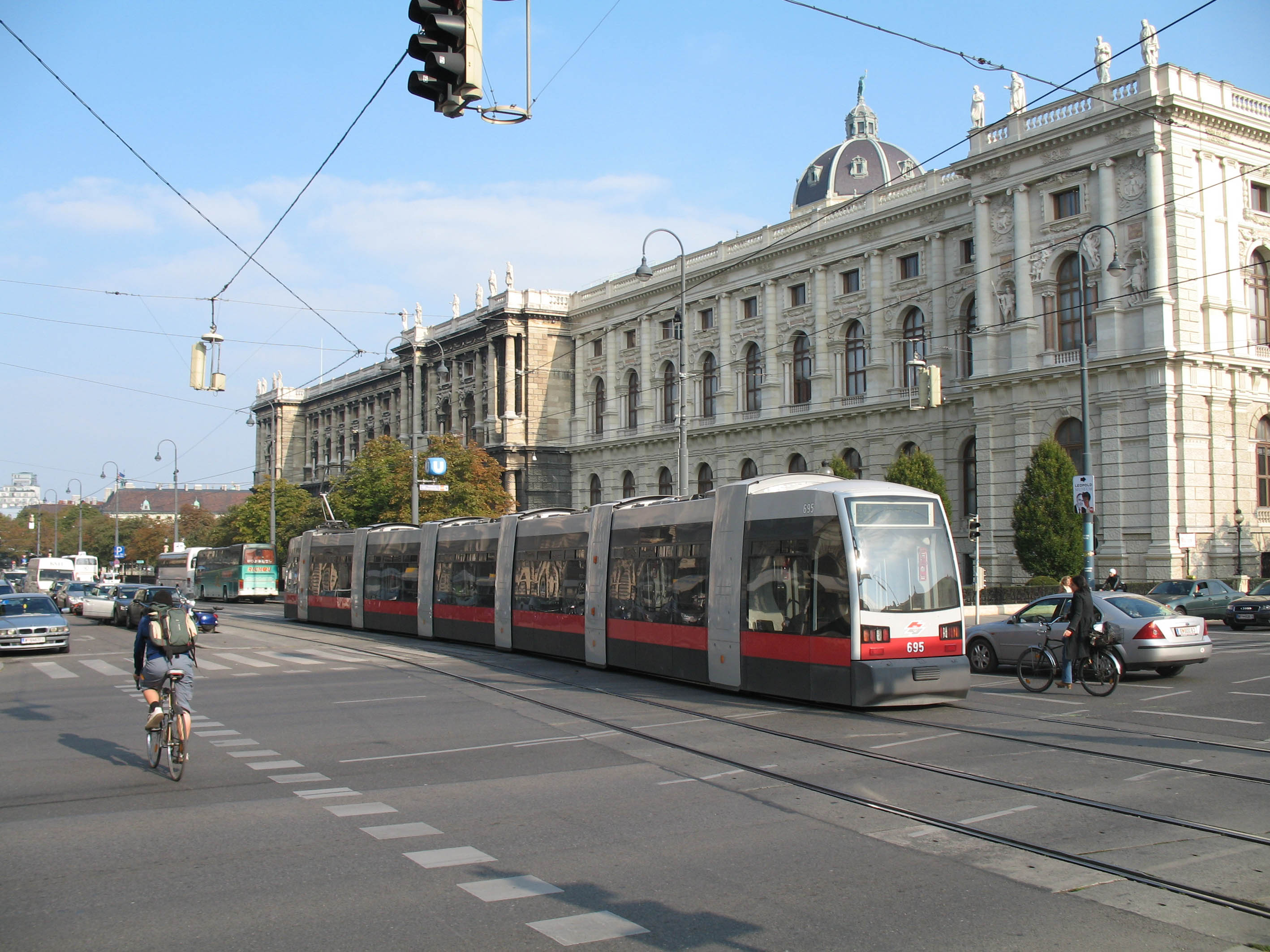 Austria, Vienna, Naturhistorisches Museum